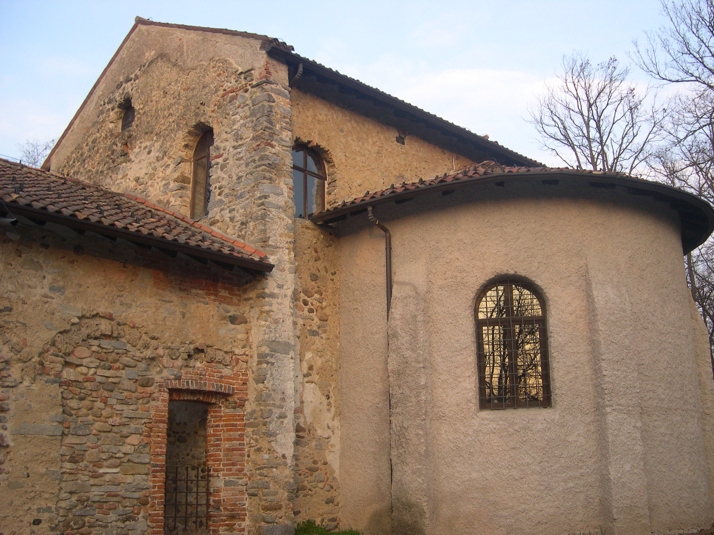 church of Santa Maria foris portas in Castelseprio